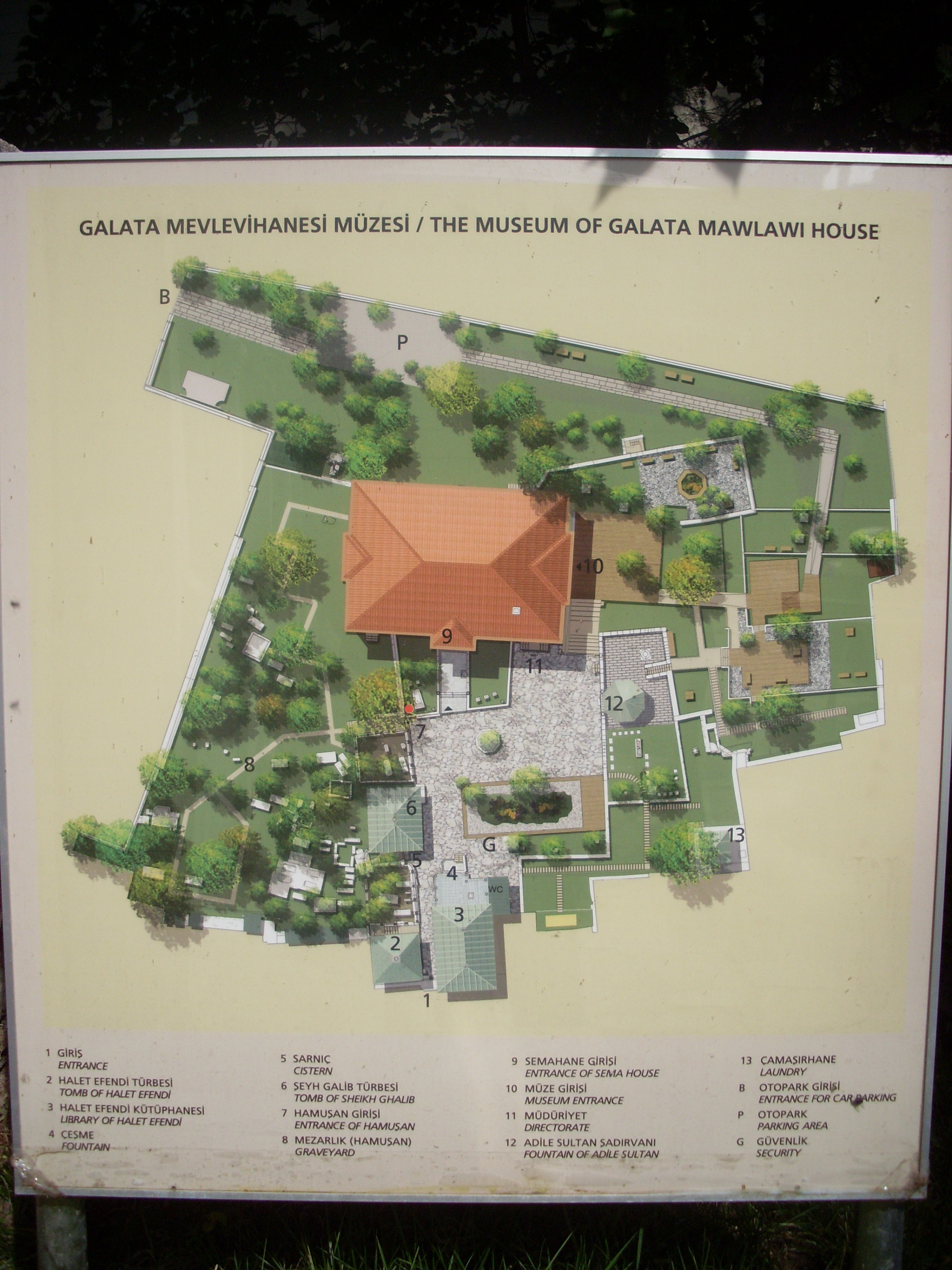 Galata Mevlevihanesi Müzesi 3